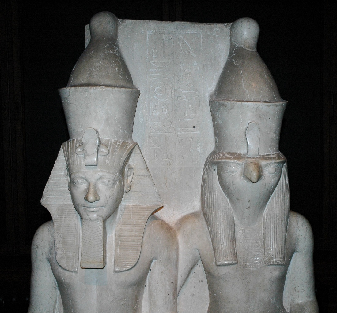 Statue of Horemheb and the God Horus Made of limestone 18th dynasty, reign of Horemheb (circa 1343-1315 BCE) ÄS 8301. Detail.